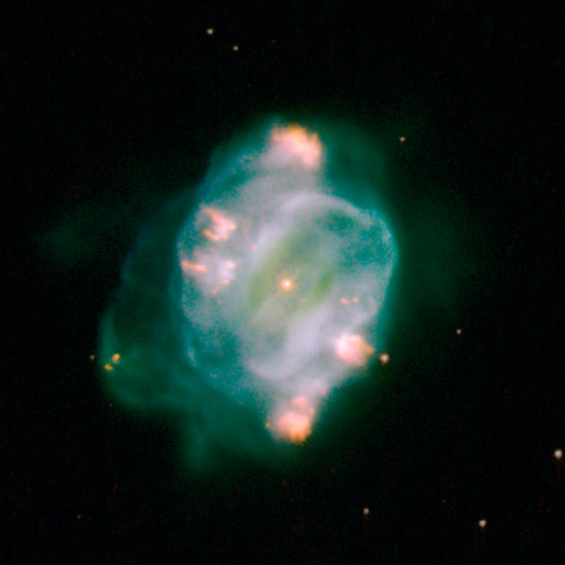 Planetary nebula NGC 5307. This image is a composite of many separate exposures made by the WFPC2 instrument on the Hubble Space Telescope. Three filters were used to sample narrow wavelength ranges. The color results from assigning different hues (colors) to each monochromatic image. In this case, the assigned colors are: F502N ([O III]) blue F656N (Halpha) green F658N ([N II]) red